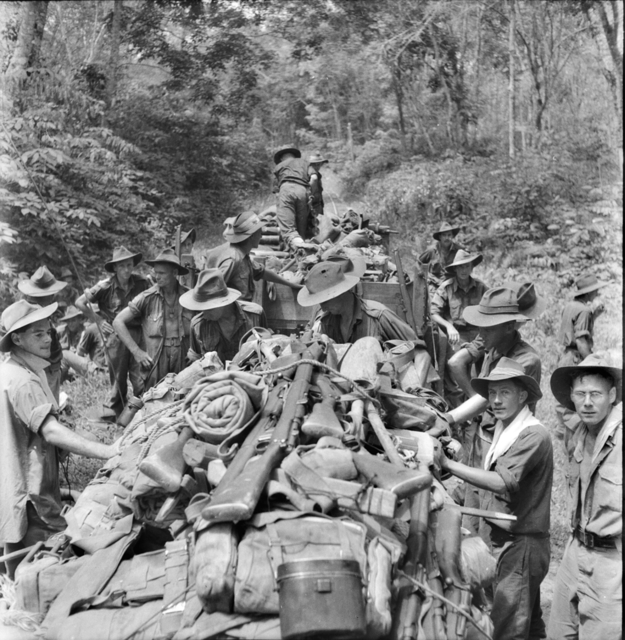 BEAUFORT AREA, BORNEO. 5 JULY 1945. TROOPS OF B COMPANY, 2/32ND INFANTRY BATTALION, UNLOADING SUPPLIES BROUGHT BY RAILWAY TRUCKS TO THE AREA. THE TRUCKS WERE TOWED BY A JEEP FITTED WITH SPECIAL WHEELS.